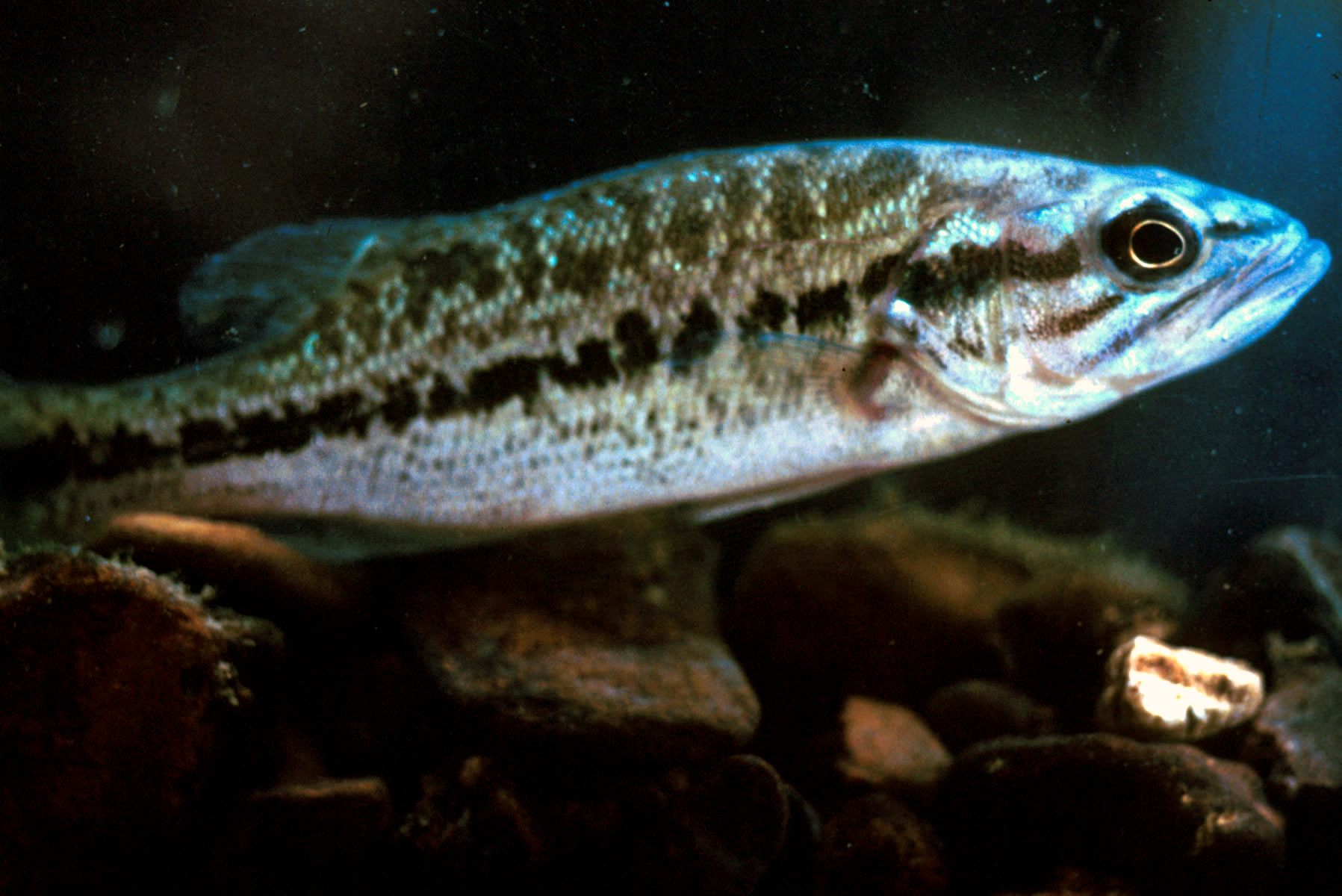 Micropterus punctulatus USFWS photo